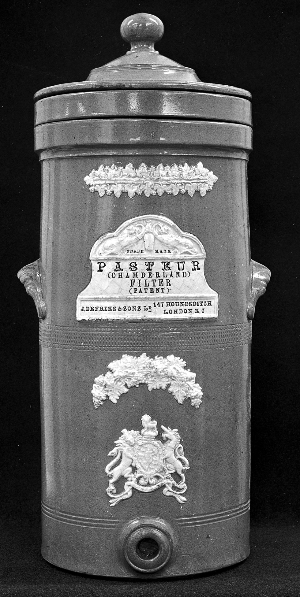 Filter designed by C. Chamberland to purify water of microbes; made by J. de Fries and Sons Ltd, of Houndsditch, London. Wellcome Images Keywords: Charles Edouard Chamberland; Charles Edouard Chamberland; J. de Fries and Sons